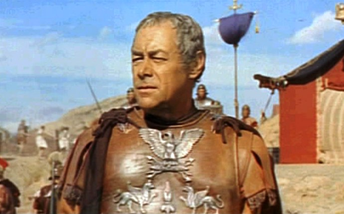 Screenshot of Rex Harrison from the trailer for the film Cleopatra.